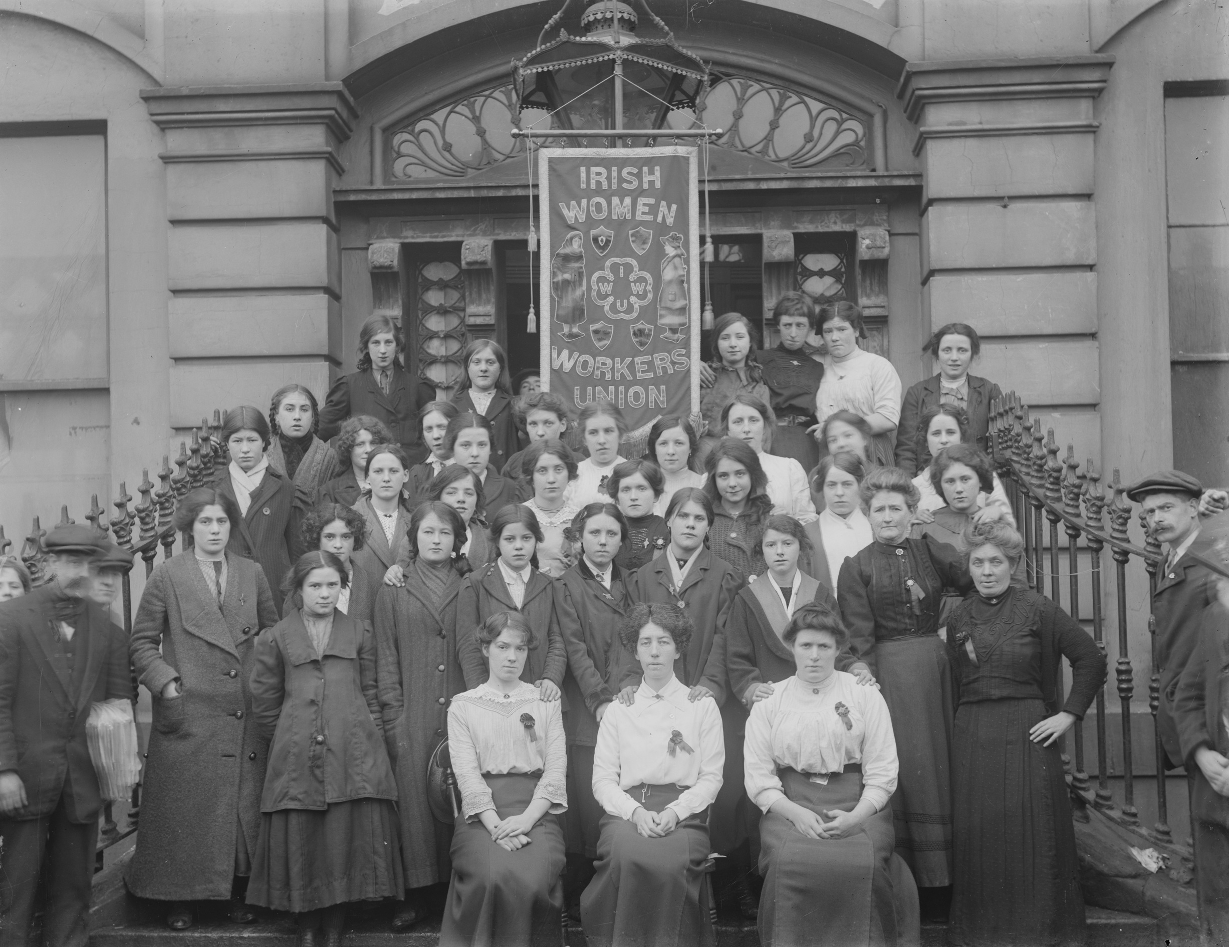 Date: Circa 1914 NLI Ref.: KE_203